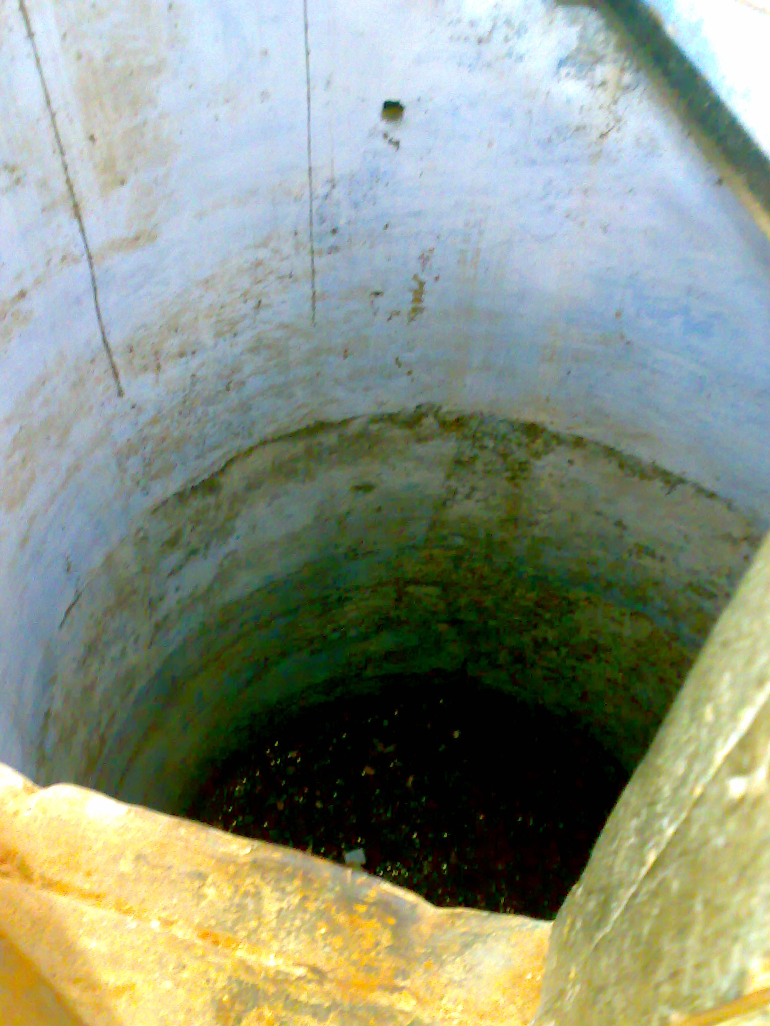 'The Martyr's' well at Jallianwala Bagh